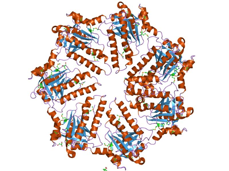 Cartoon representation of the molecular structure of protein registered with 1pzn code.